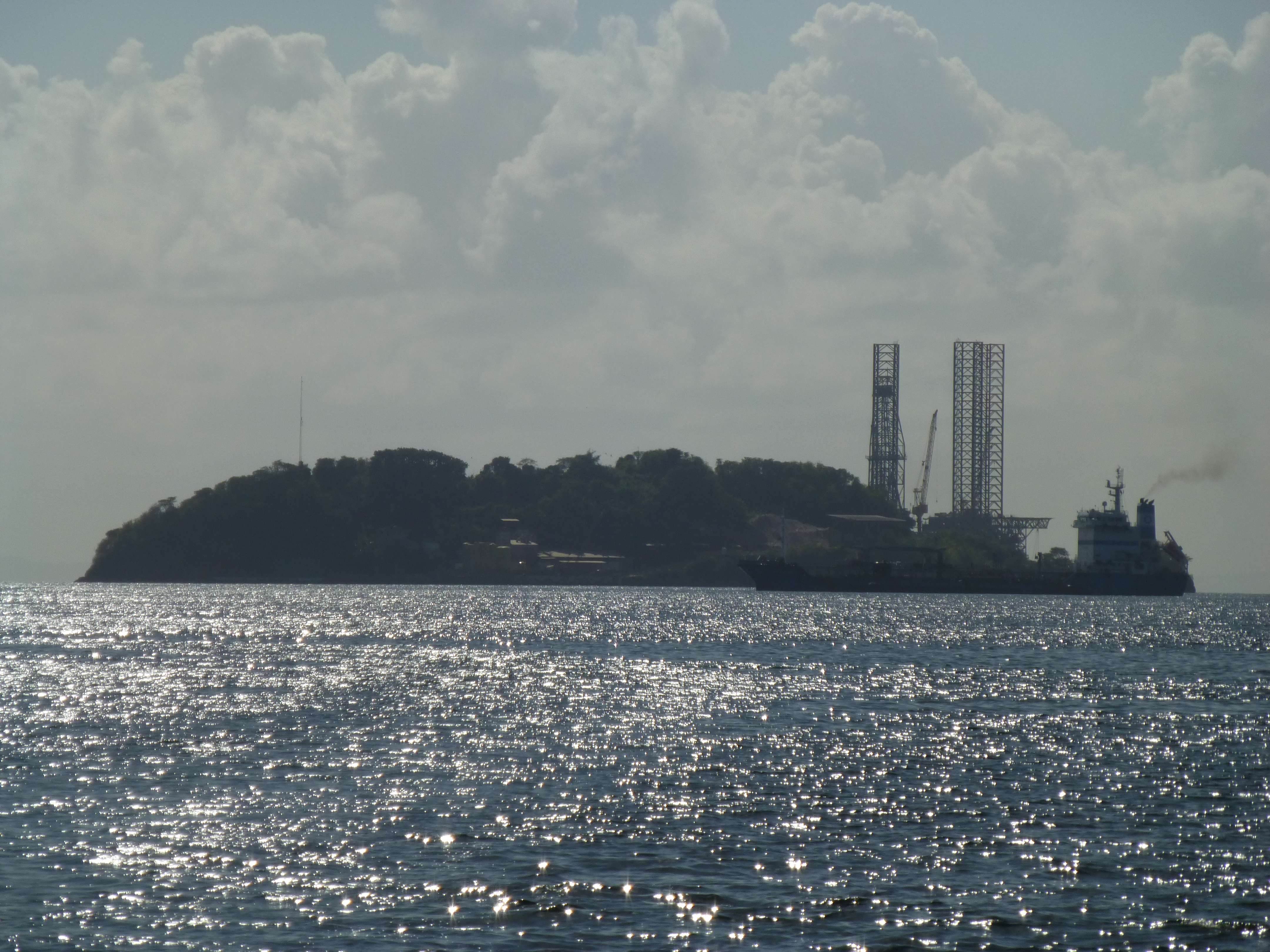 Cronstadt Island, Chaguaramas, Trinidad. View from the west.